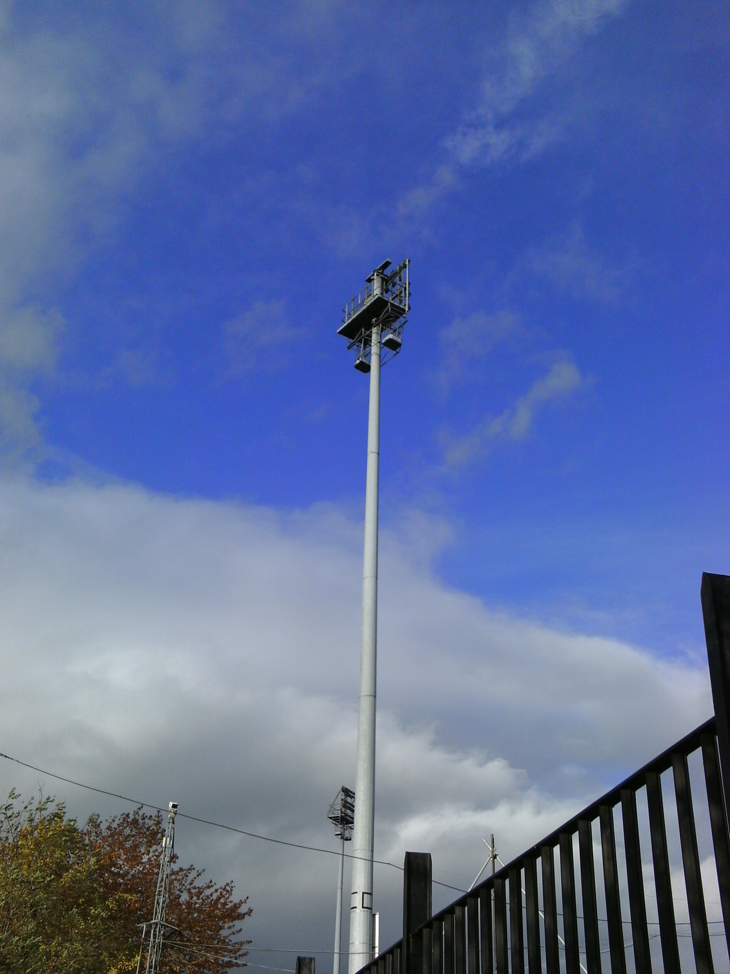 Floodlight column C at the Headingley Stadium in Leeds.